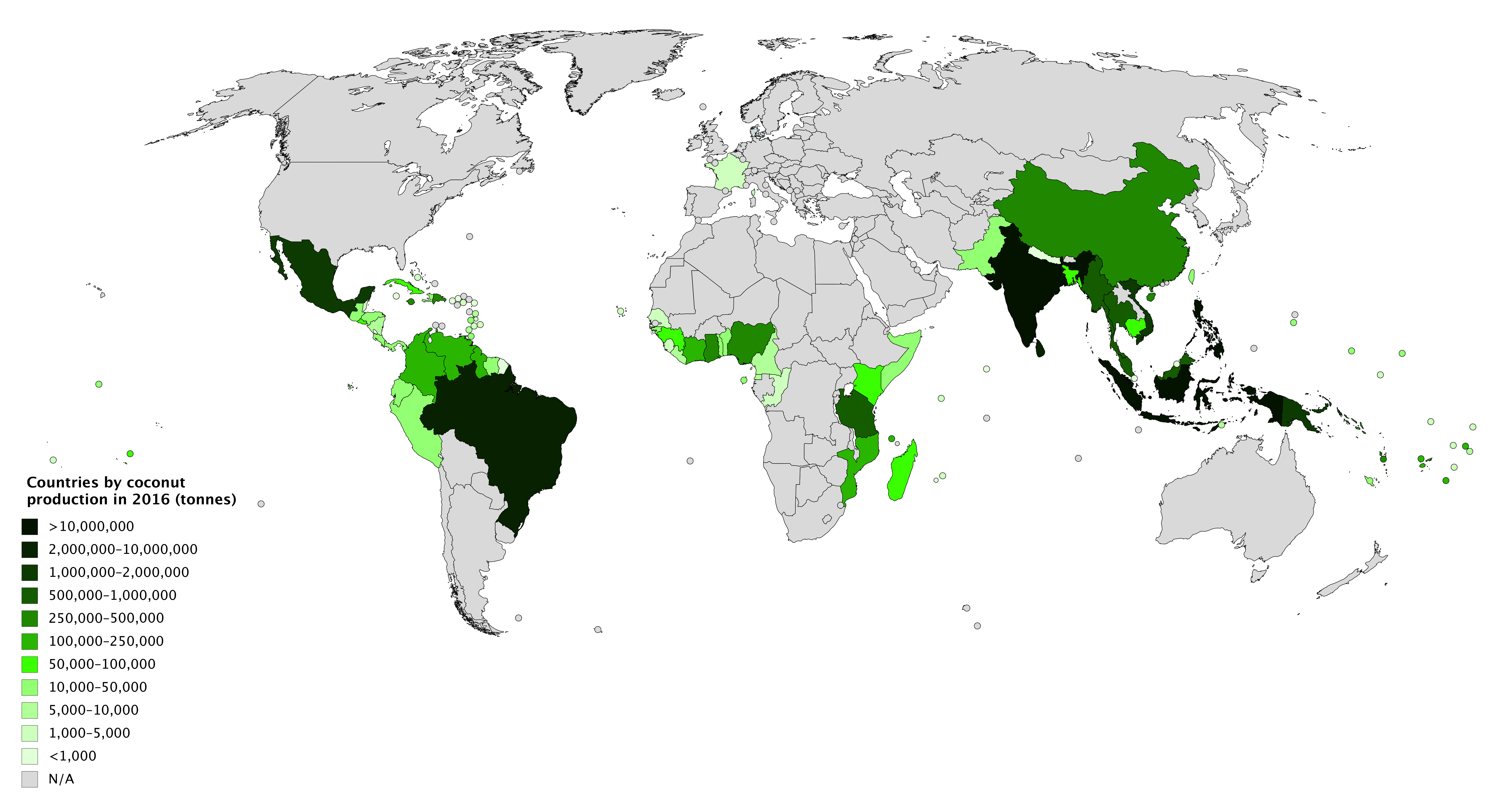 A choropleth map showing countries by coconut production in tonnes, based on 2016 data from the Food and Agriculture Organization Corporate Statistical Database (FAOSTAT).